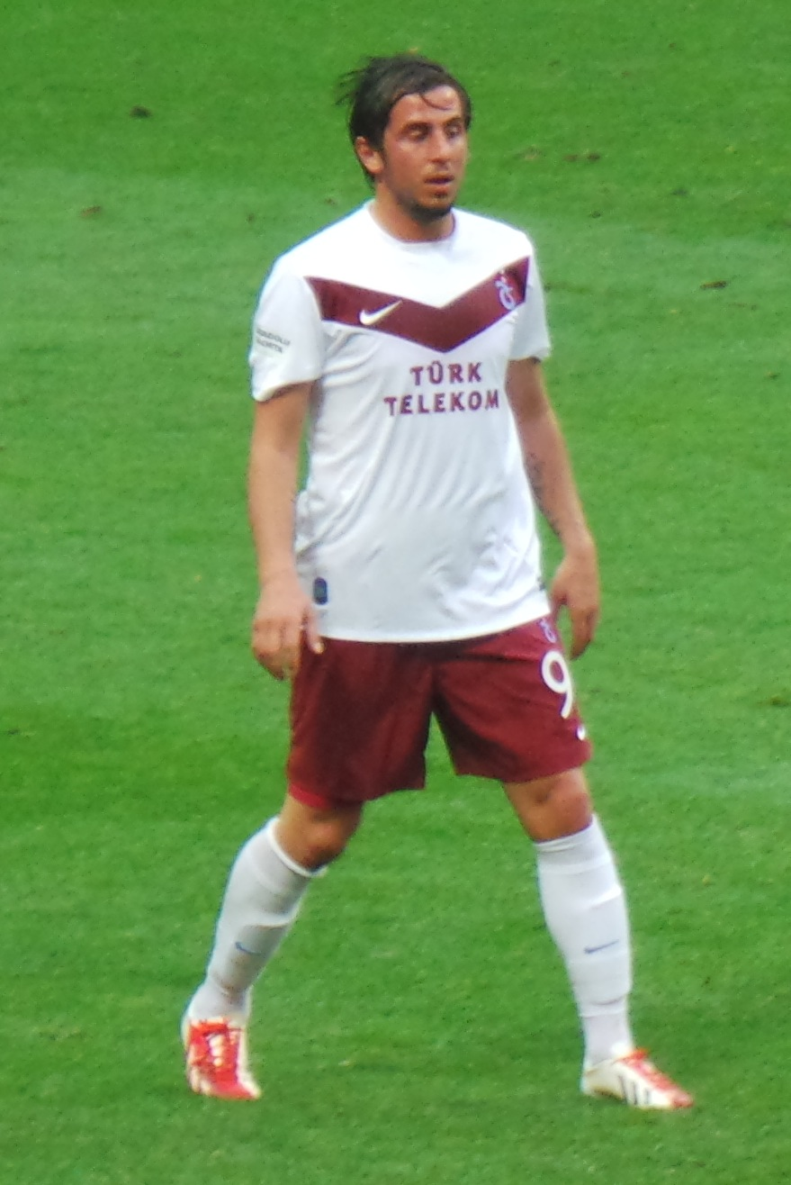 Zeki Yavru Trabzonspor formasıyla TT Arena'da.